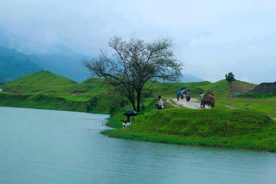 Tanguar haor (Bengali: টাঙ্গুয়ার হাওর), (also called Tangua haor), located in the Dharmapasha and Tahirpur upazilas of Sunamganj District in Bangladesh, is a unique wetland ecosystem of national importance and has come into international focus. The area of Tanguar haor including 46 villages within the haor is about 100km2 of which 2,802.36 ha2 is wetland. It is the source of livelihood for more than 40,000 people. The Government of Bangladesh declared Tanguar haor as an Ecologically Critical Area in 1999 considering its critical condition as a result of overexploitation of its natural resources. In 2000, the hoar basin was declared a Ramsar site - wetland of international importance. With this declaration, the Government is committed to preserve its natural resources and has taken several steps for protection of this wetland. Tanguar haor plays an important role in fish production as it functions as a 'mother fishery' for the country. Every winter the haor is home to about 200 types of migratory birds. The haor is an important source of fish. In 1999-2000, the government earned 7,073,184 takas as revenue just from fisheries of the haor. There are more than 140 species of fresh water fish in the haor. The more predominant among them are: ayir, gang magur, baim, tara, gutum, gulsha, tengra, titna, garia, beti, kakia etc. Hijal, karach, gulli, balua, ban tulsi, nalkhagra and other freshwater wetland trees are in this haor.